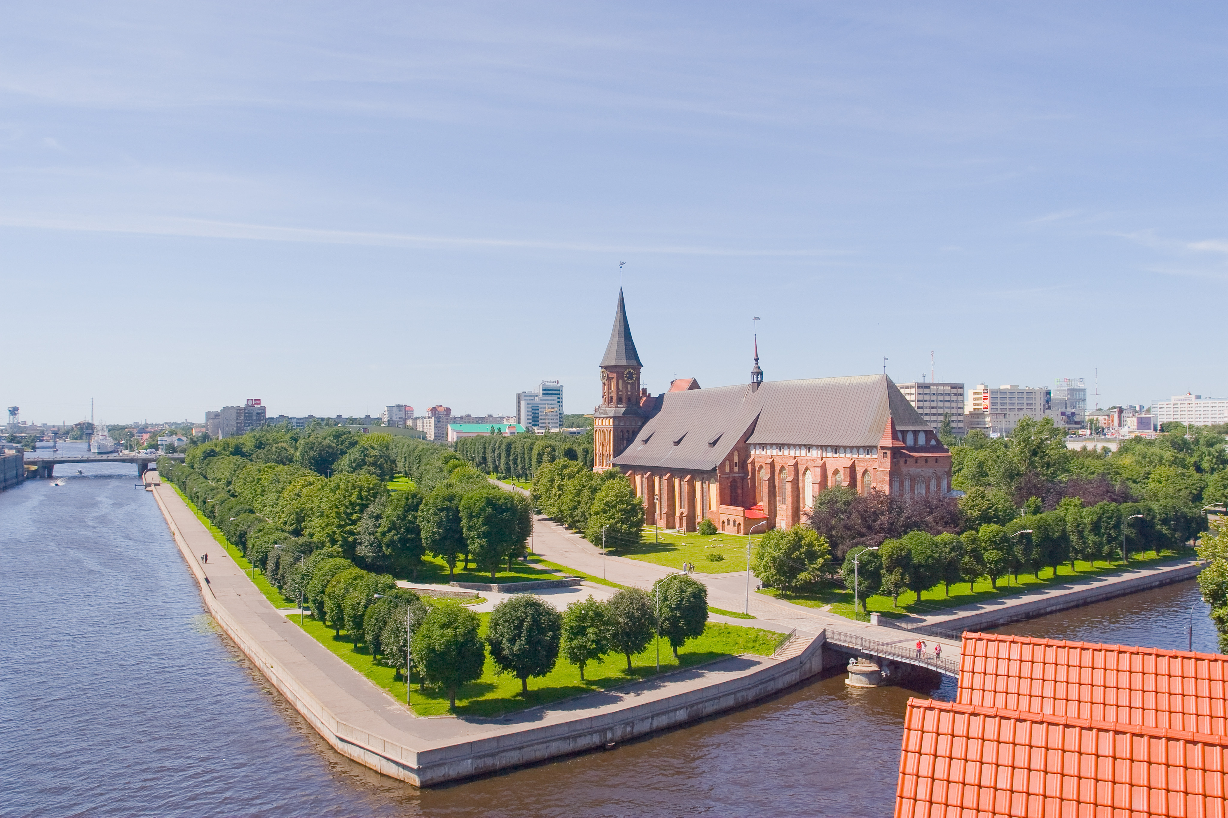 Photo of old cathedral of Kaliningrad in Russia (former Prussian Königsberg)